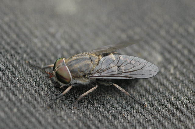 Picture taken in Commanster, Belgian High Ardennes . Species: female Tabanus bovinus